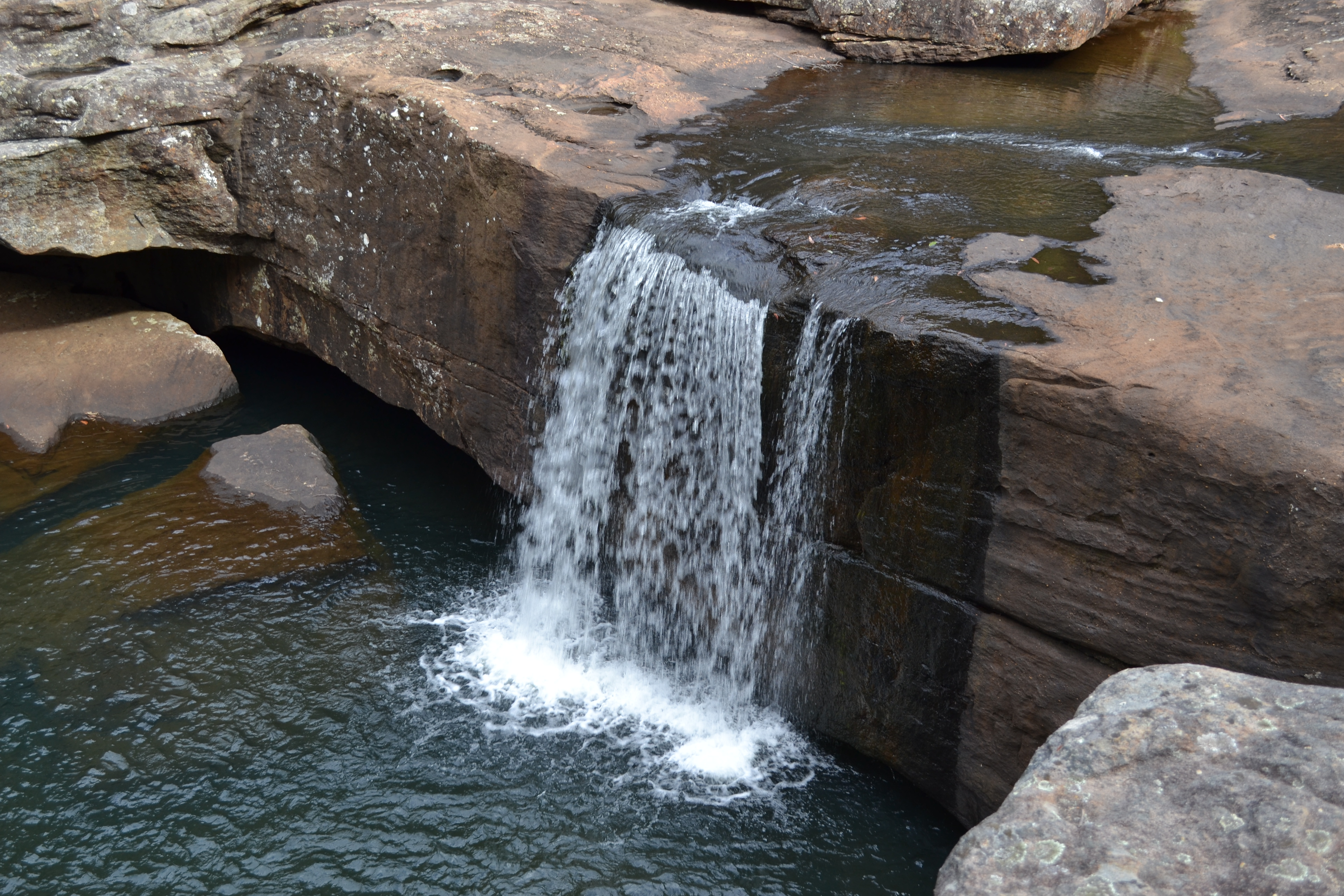 The sound was incredible and loud